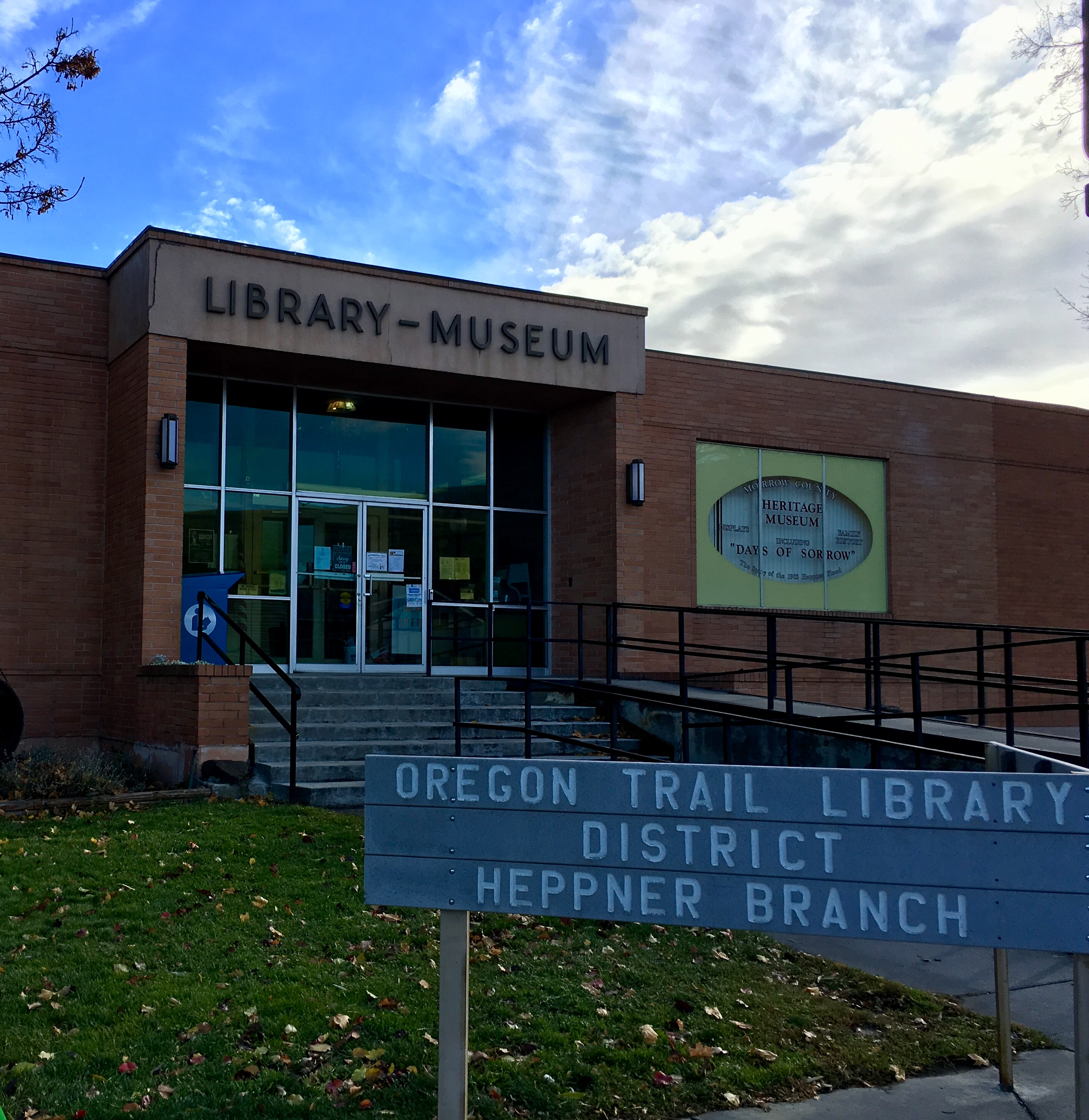 Exterior of the Heppner (OR) Library-Museum. November 2017.